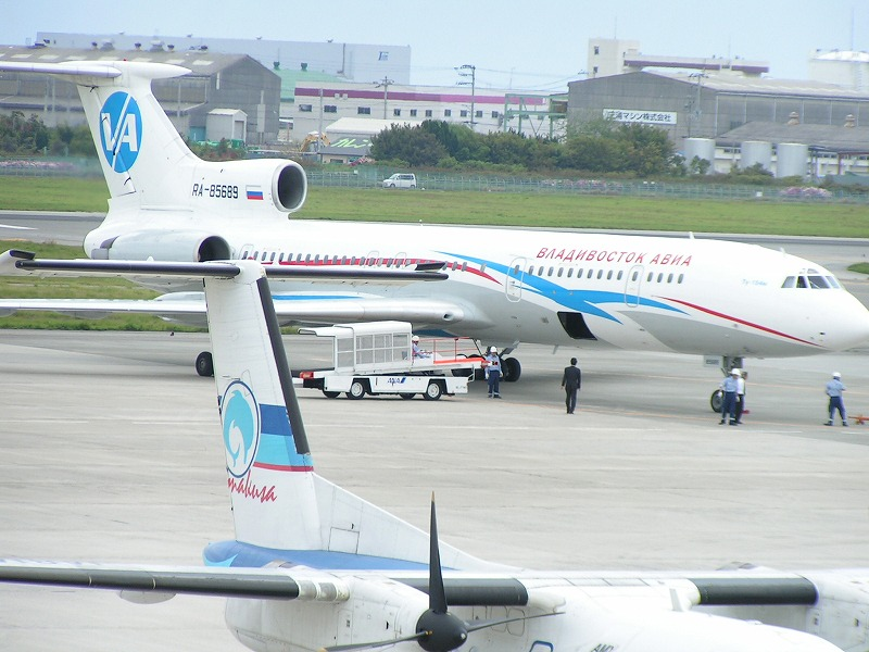 Tupolev 154 Vladivostok Avia(RA-8569)New Color an RJOM(Matsuyama)